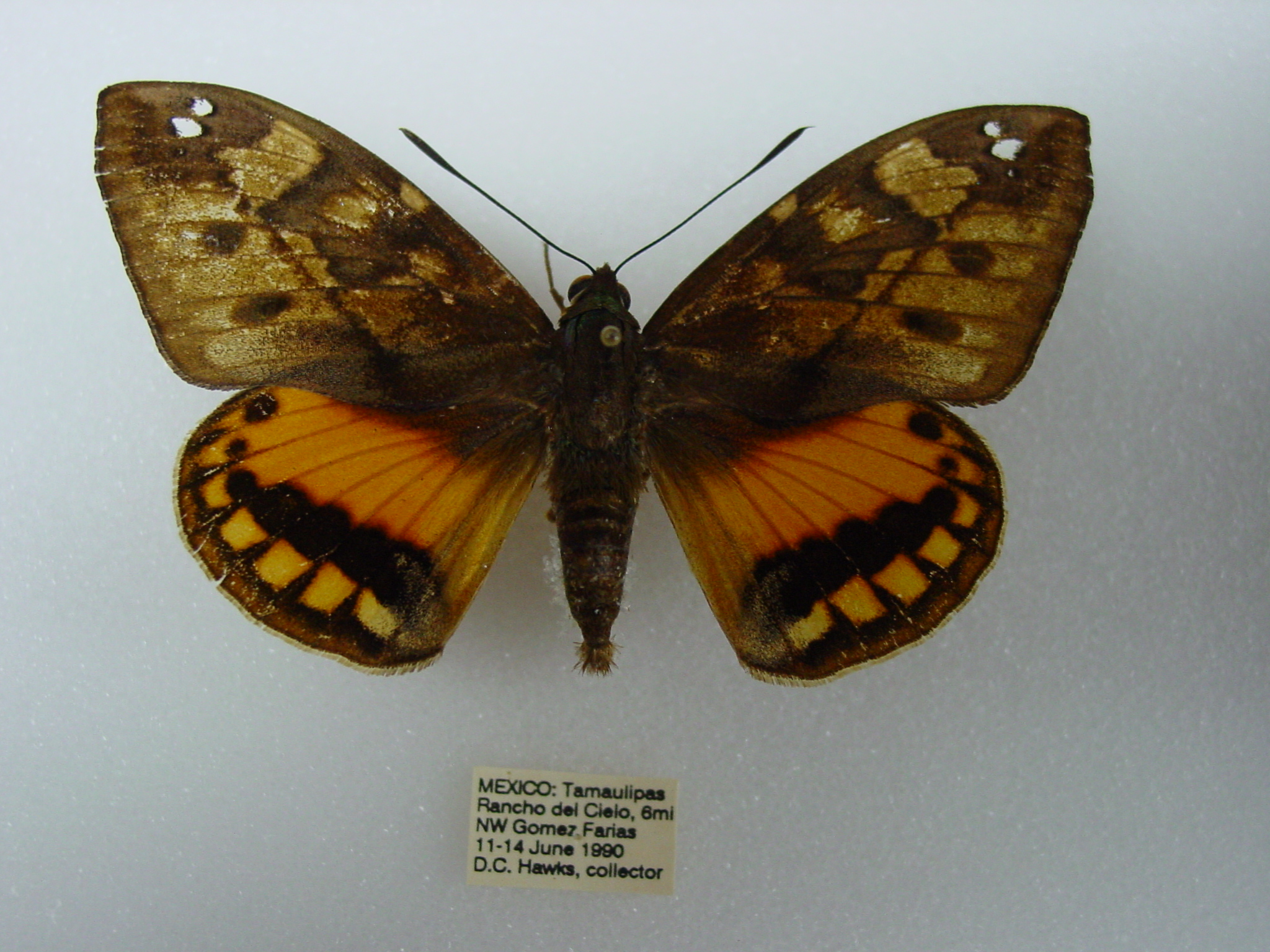 Mexican Castniid moth, Athis inca inca (Walker 1834); photo by D. Yanega